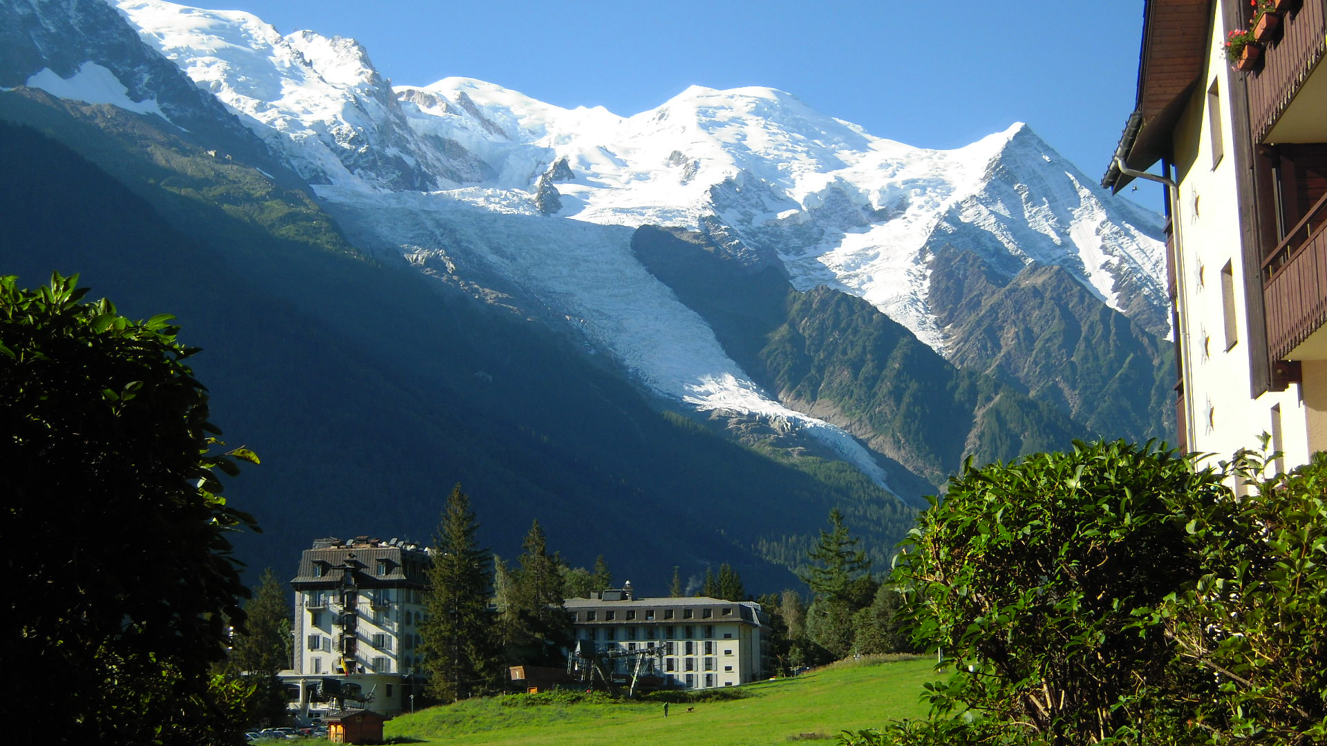 Mont Maudit, Mont blanc, Dôme du gouter and Aiguille du gouter From chamonix